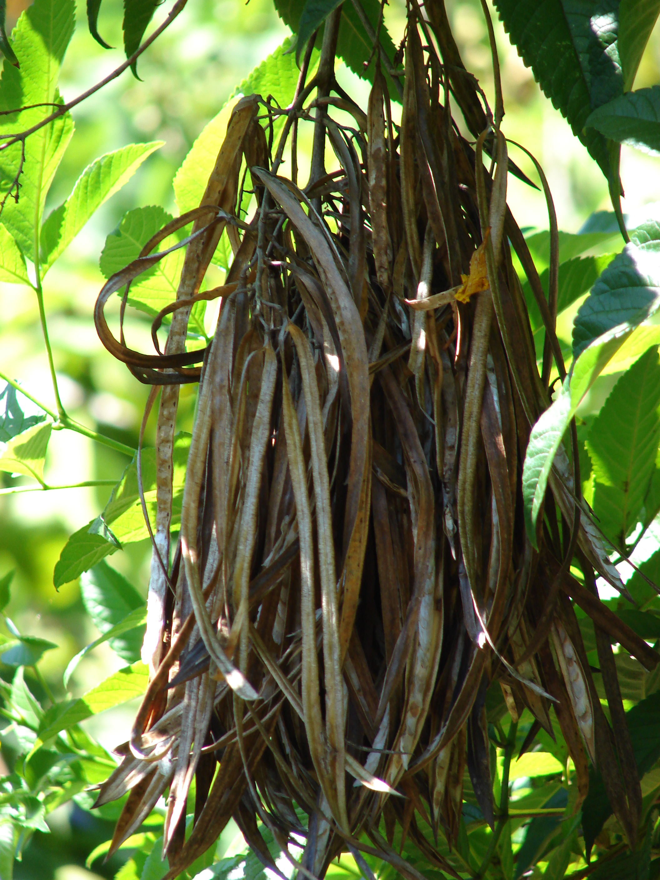 Tecoma stans (seedpods). Location: Maui, Enchanting Floral Gardens of Kula